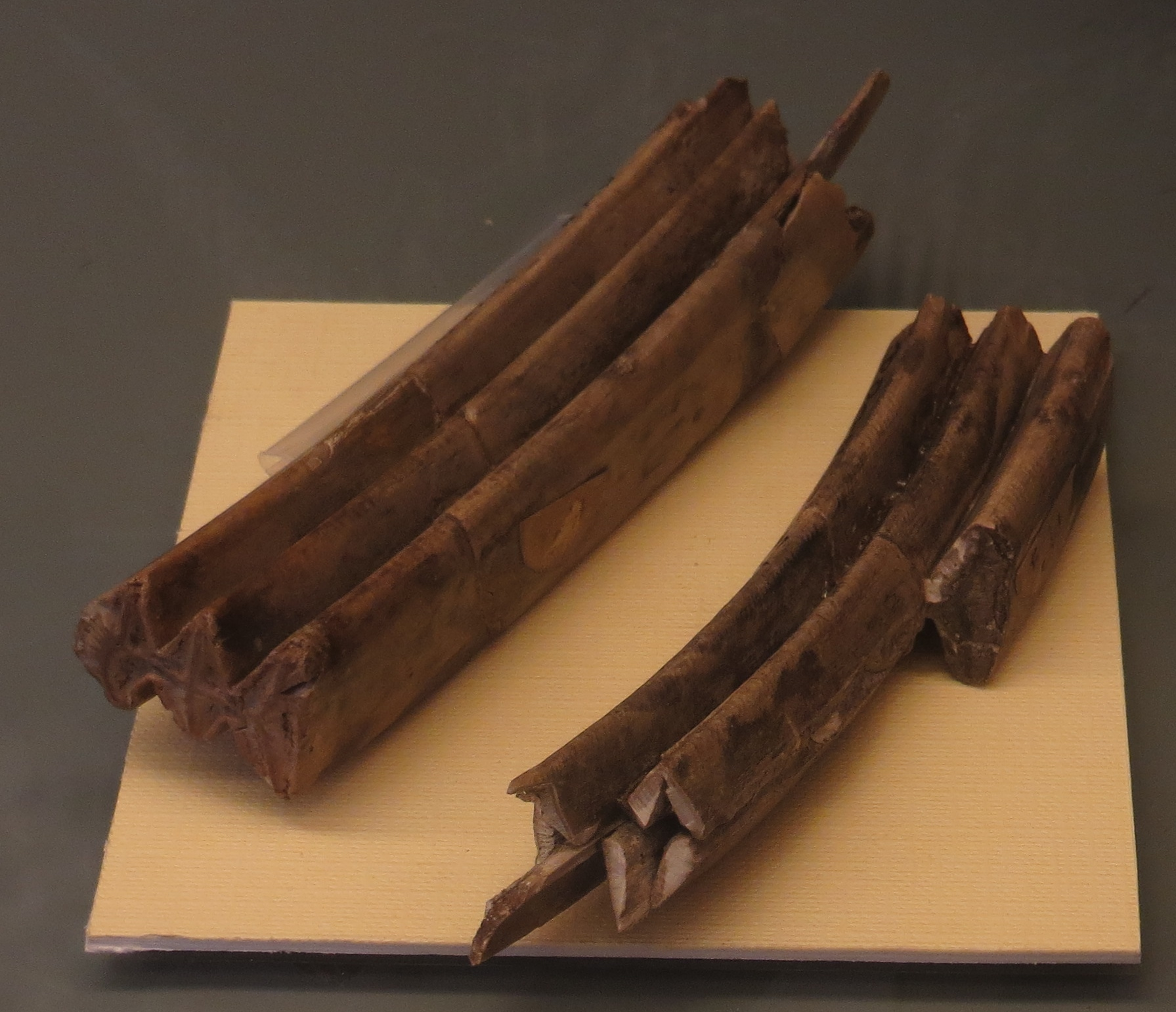 Fossil teeth of Glyptodon [WHERE WAS THE PHOTO TAKEN??]